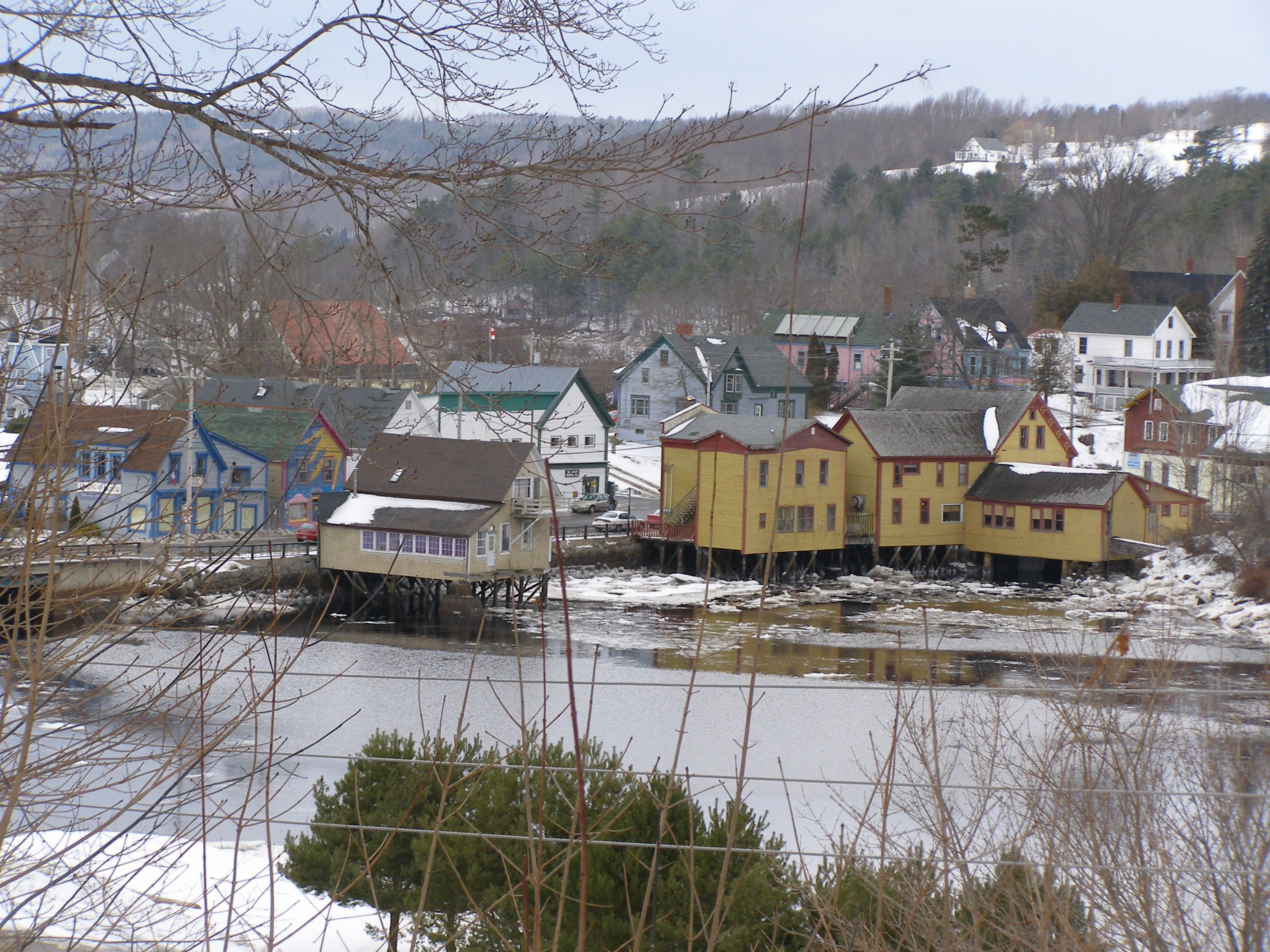 Bear river, Nova Scotia, in winter